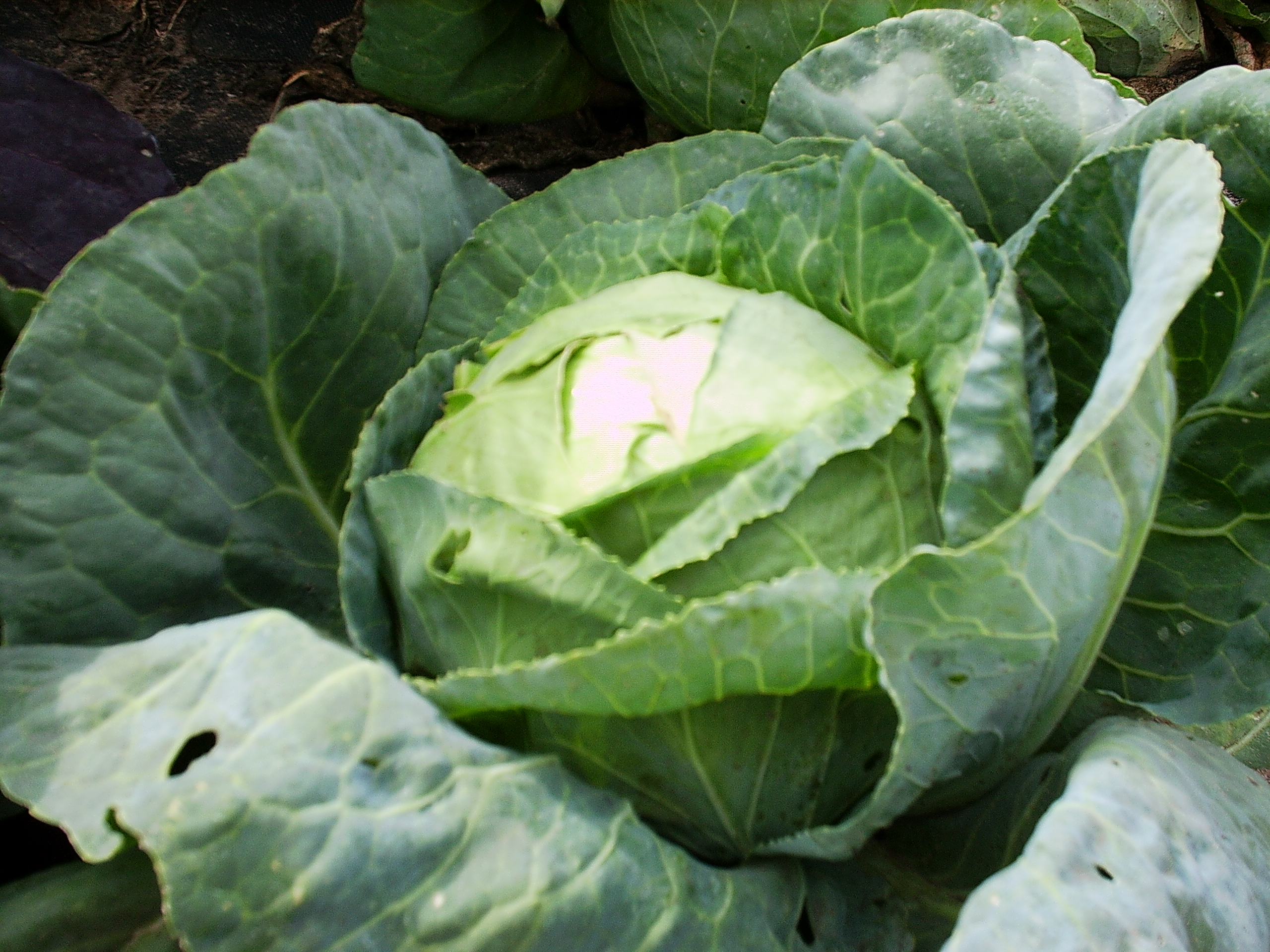 A White Marathon cabbage, grown by Steve Block in 2006